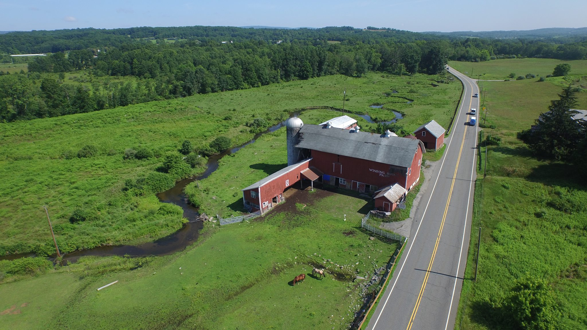 A photo taken by drone of Winding Brook Farm's decaying barn along located between County Route 565 and Papakating Creek in Frankford Township, Sussex County, New Jersey (USA)